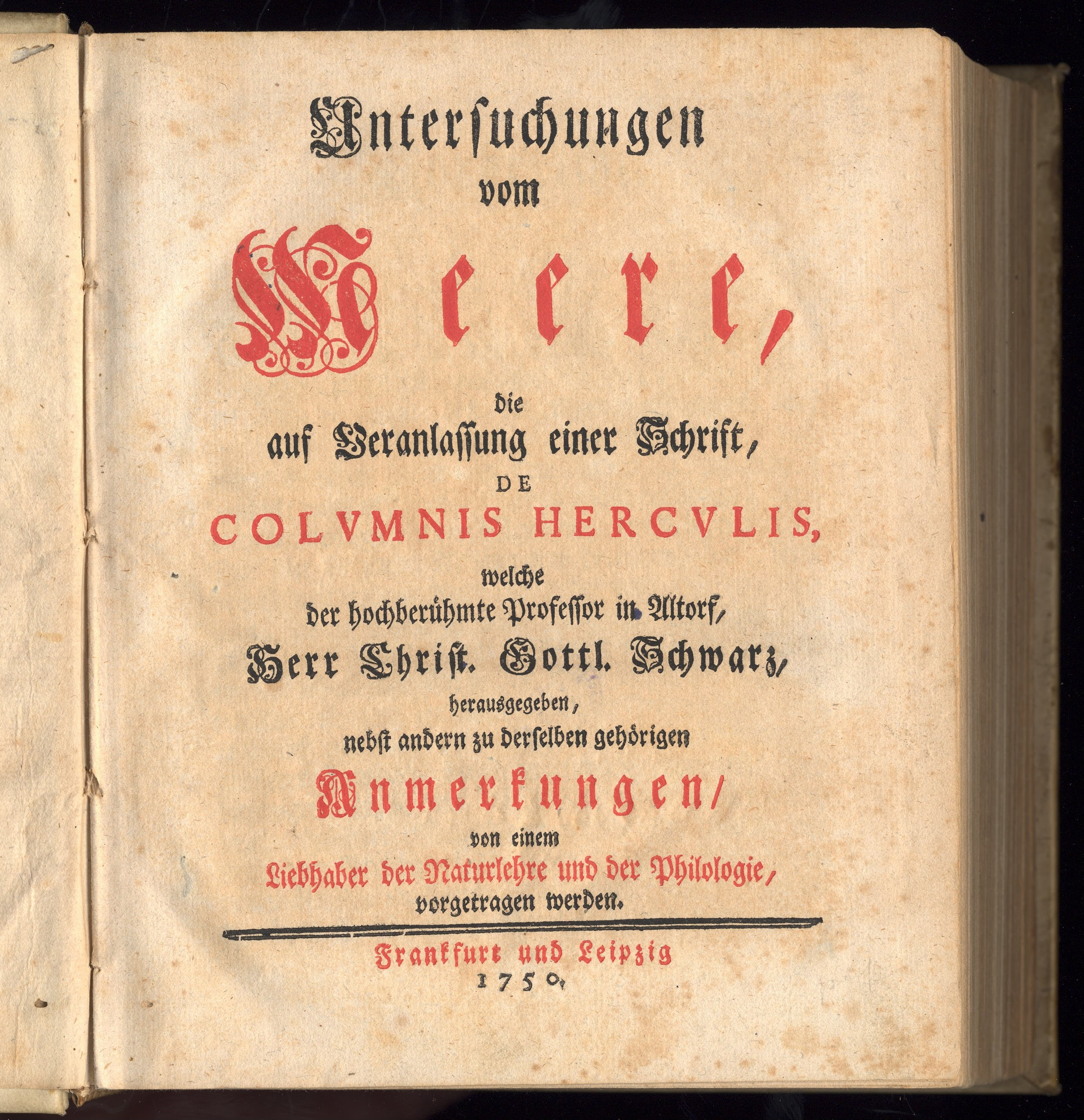 Cover of the Untersuchungen vom Meere.